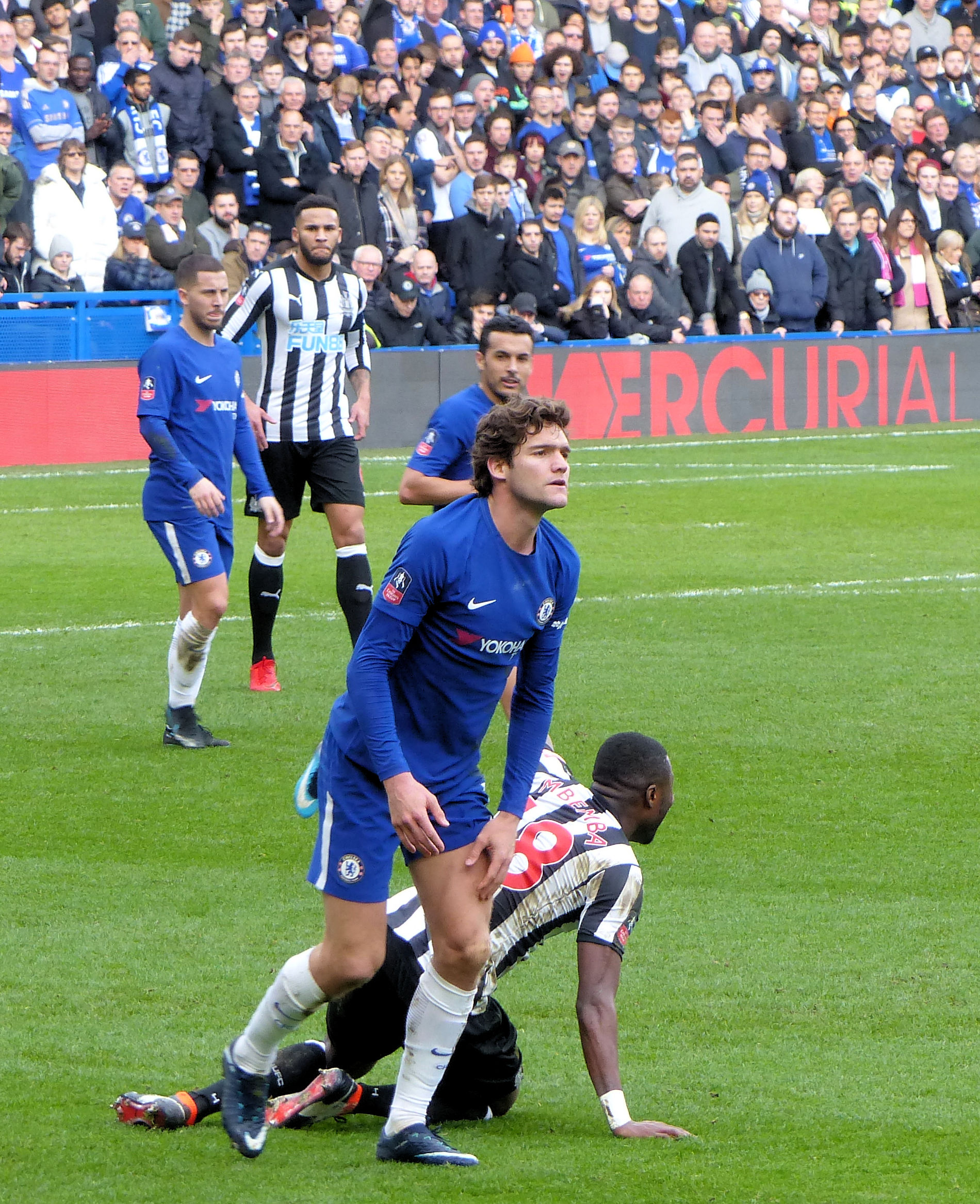 Chelsea's Marcos Alonso in action against Newcastle Jan 28th 2018